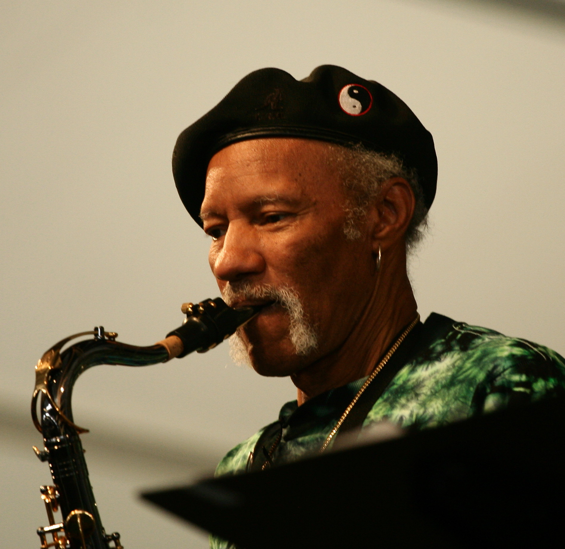 Charles Neville on sax, New Orleans Jazz Fest. Blues Tent Thursday, May 5, 2011